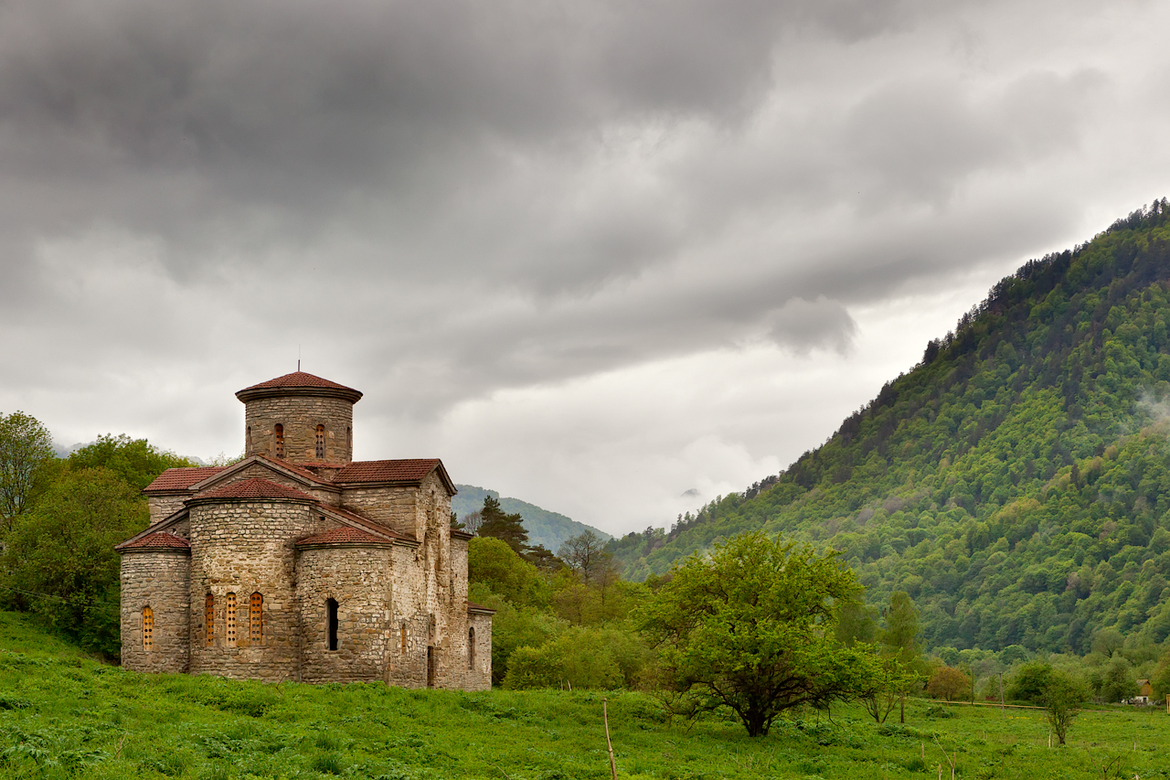 The Central church of The Zelenchuksky Churches or Lower-Arkhyz Churches